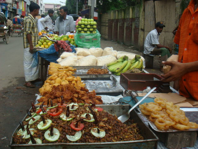 During break of fasting (Iftar) food vendors are seen all around corner streets selling delicious snacks. The vendors compete by seeking customers attention with fanfare..